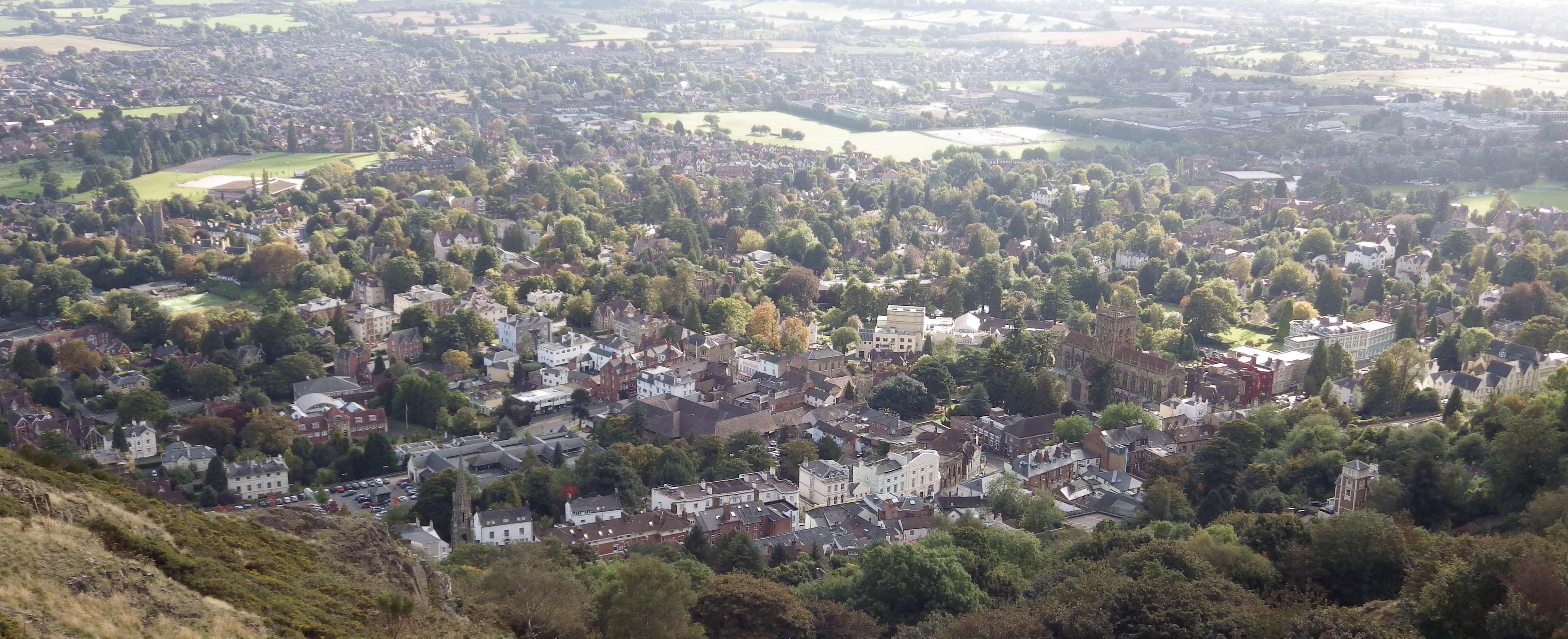 Great Malvern from North Hill